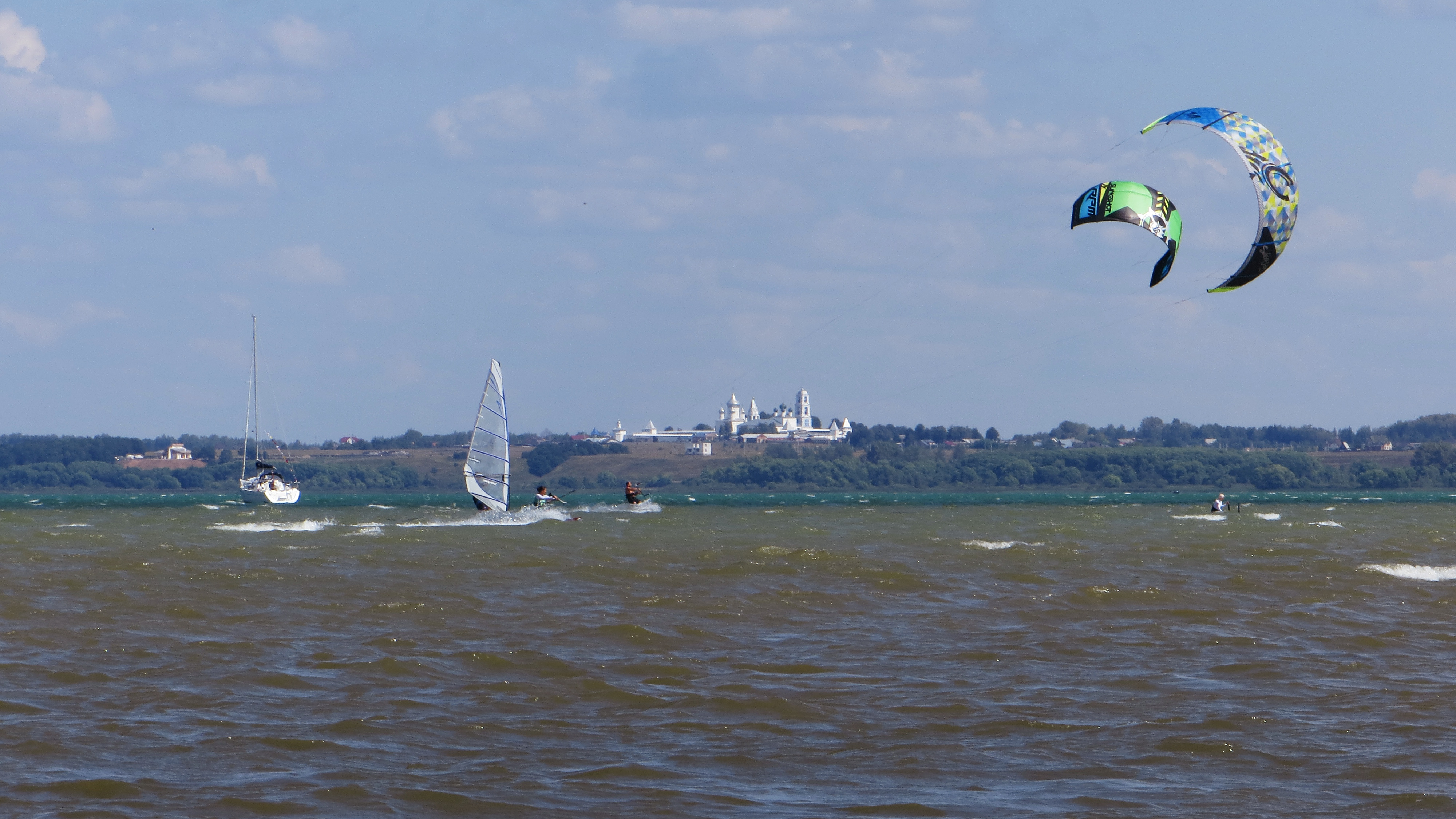 Pleshcheyevo Lake seen from Botik.